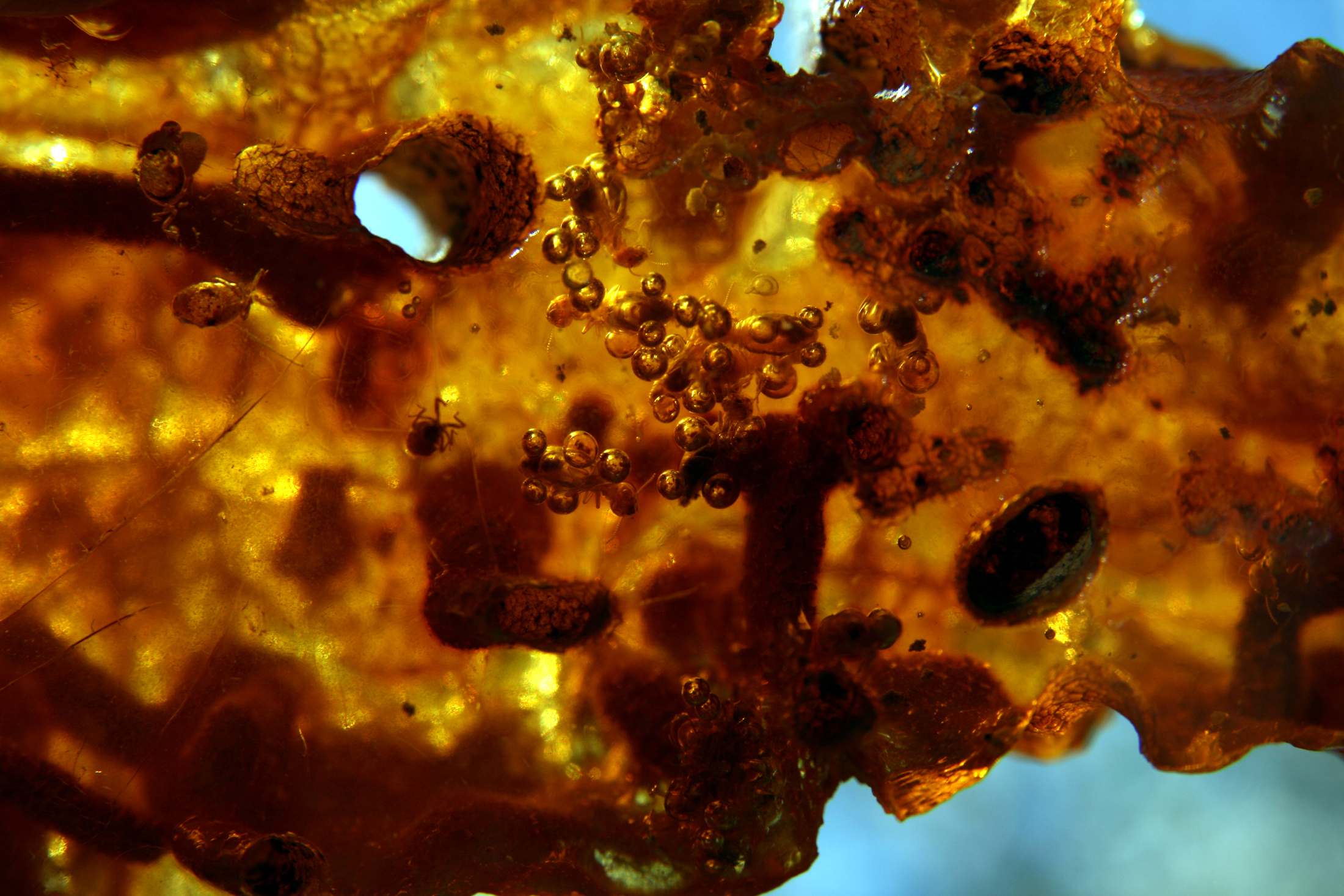 A copal with few bugs inside. The piece of copal measures around four centimeters deep. The insects are trapped from 0.5 to 2 centimeters deep inside the copal. The bubbles around some of the insects indicate that they were alive and breathing, when they were trapped inside.